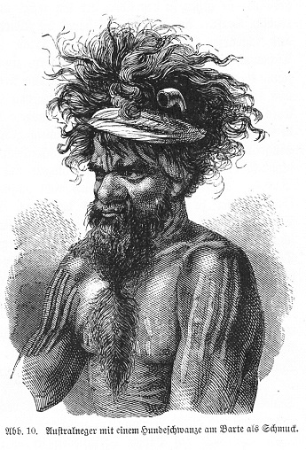 Wood engraving about 1890. Text: Aboriginal with a dog's tail like a beard jewelry